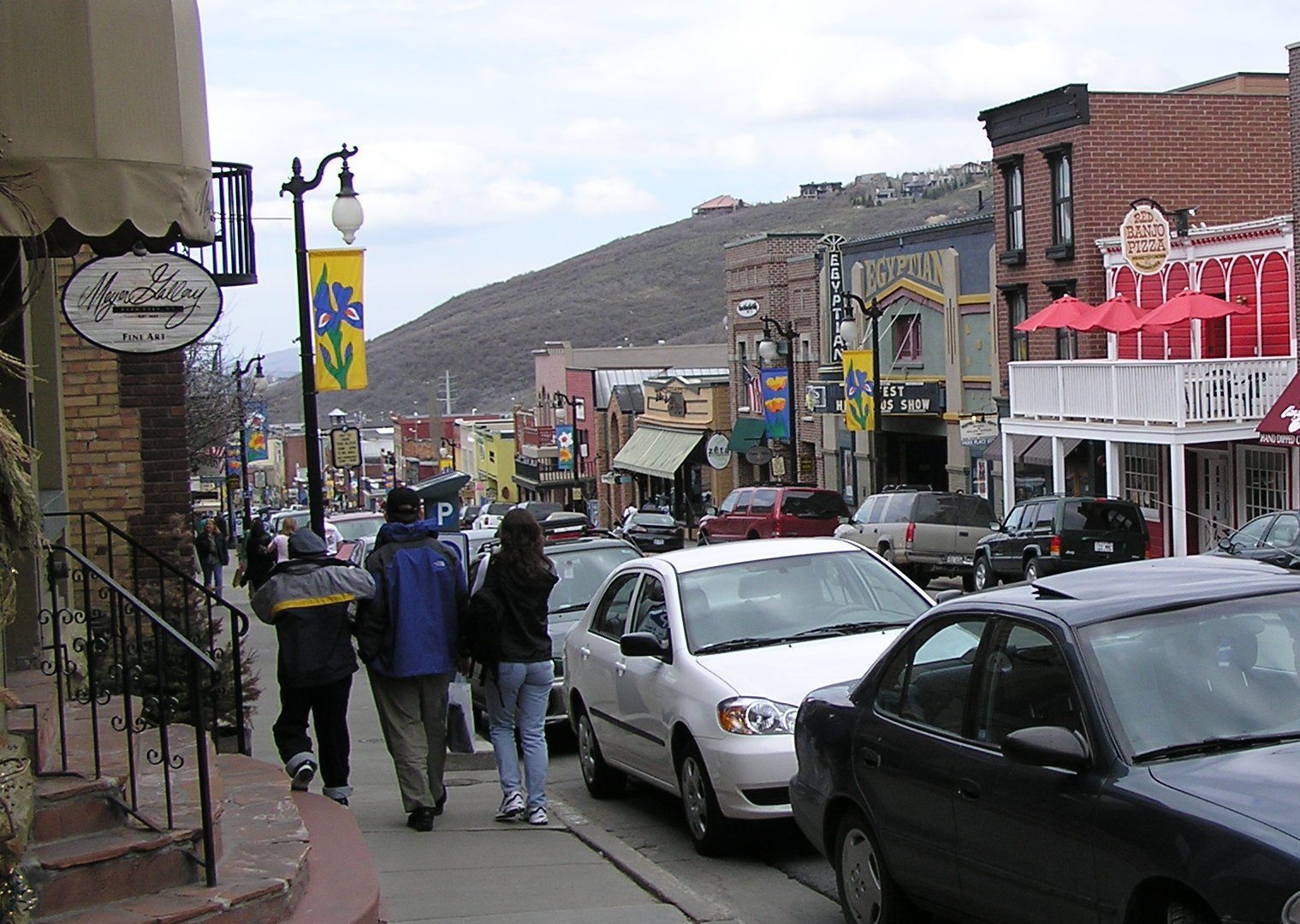 Looking down main street in Park City, Utah, USA